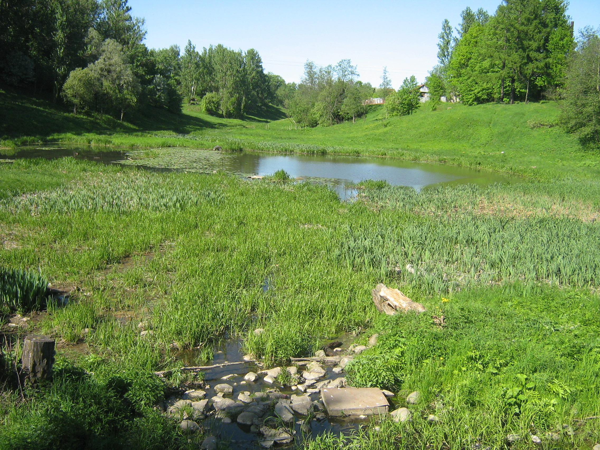 Kolpino (Russia), Bolshaya Izhorka river.